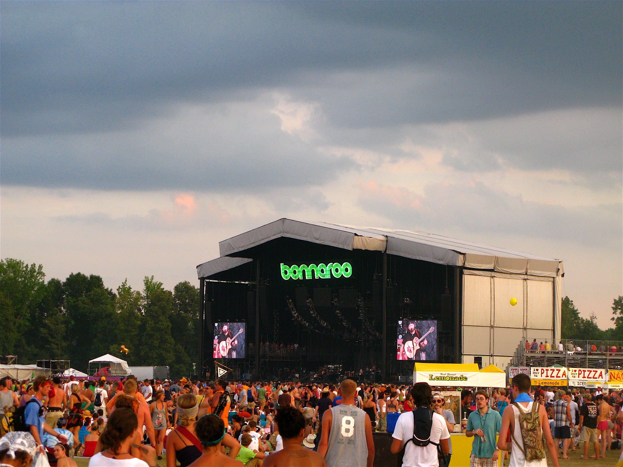 Bonnaroo Music and Arts Festival 2010 Manchester, TN By JASON ANFINSEN